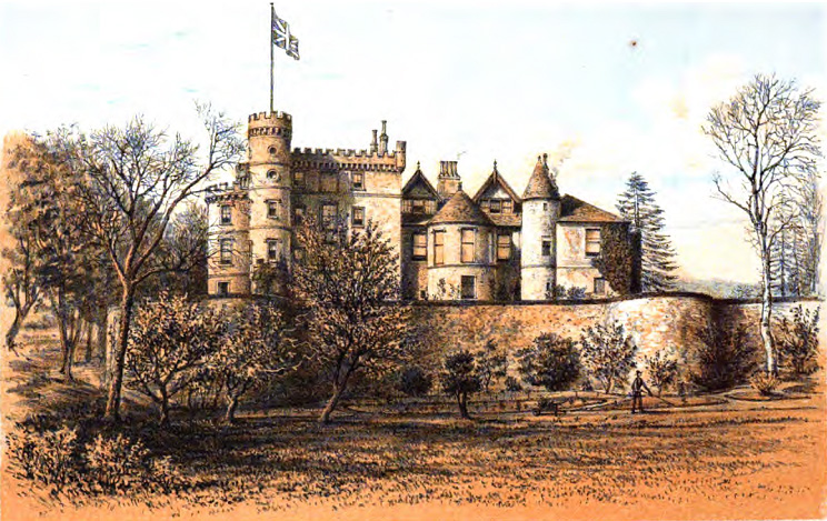 An illustration of Ardincaple Castle, depicting the castle sometime before 1879 (the year in which this book was published). According to this book the castle was then occupied by H. E. Crum-Ewing of Strathleven, Lord Lieutenant of Dumbartonshire. This illustration is from the book The Book of Dumbartonshire, volume 3, by Joseph Irving, published in 1879. The illustration is unattributed within the book. The lifespan of the author of the book was 1830-1891; and it is assumed the creator of this illustration would have had lived in roughly the same era.